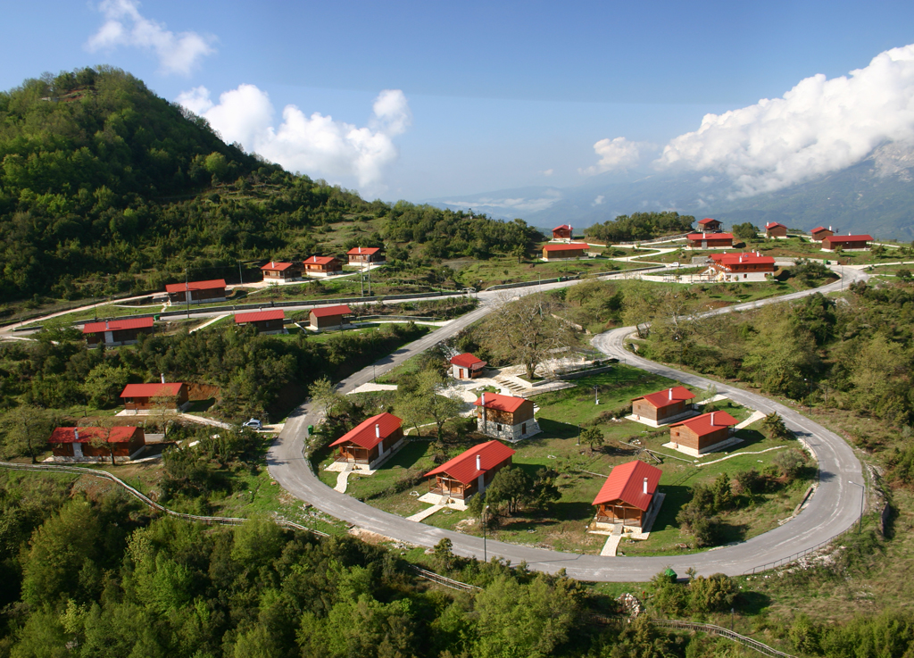 An aerial shot of the Kedros mountain village at Tzoumerka Greece showing all of the wooden huts